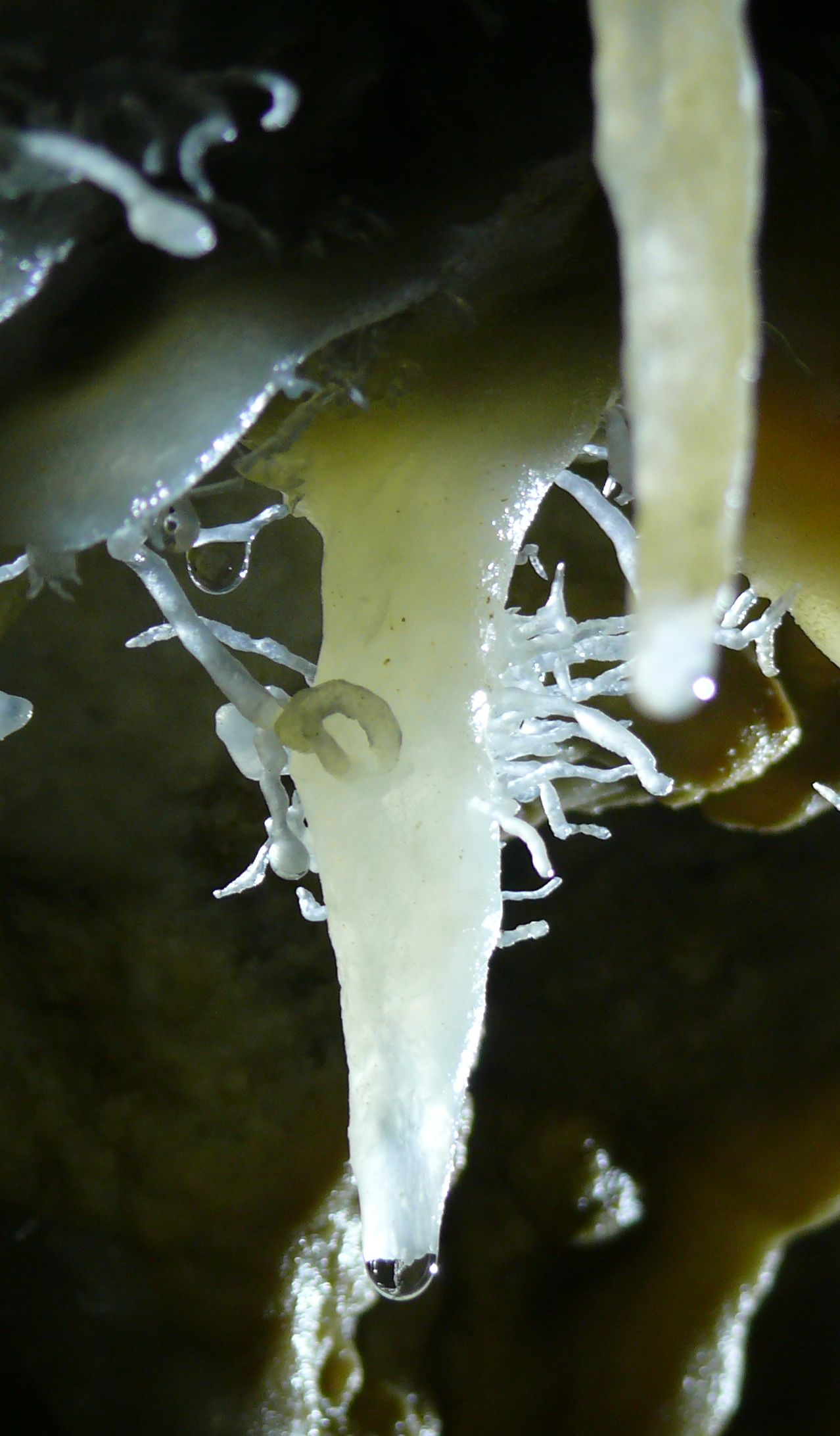 Helictites